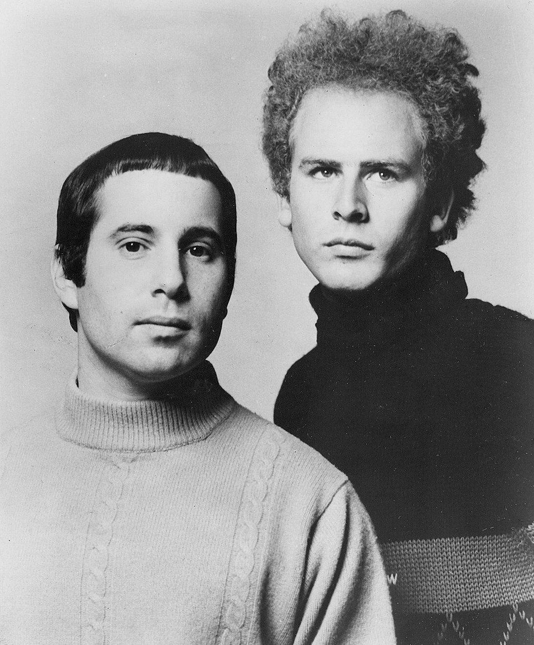 Photo of Paul Simon and Art Garfunkel as the duo Simon and Garfunkel.